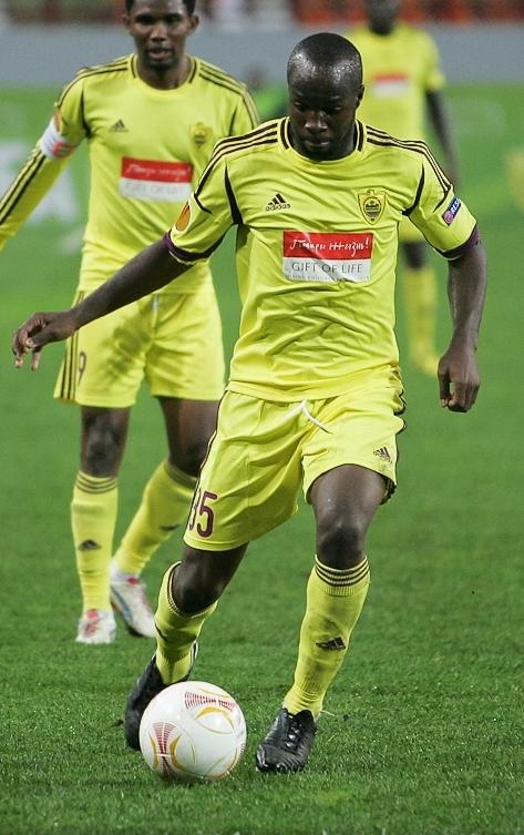 Lassana Diarra with FC Anzhi Makhachkala.